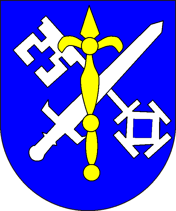 coats of arms of the priory of Odenheim